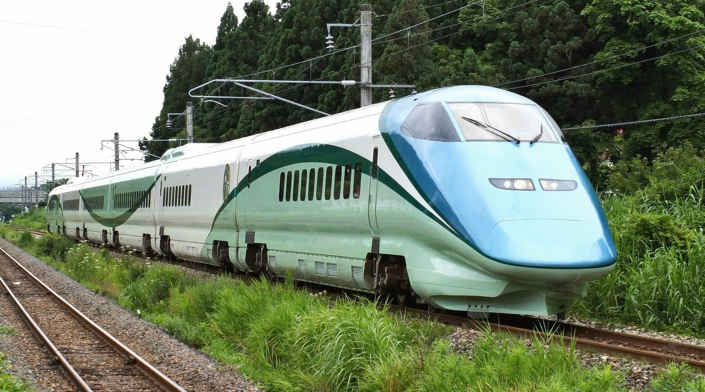 E3-700 series set R18 on the Toreiyu Tsubasa 1 service near Shinjo on the Yamagata Shinkansen